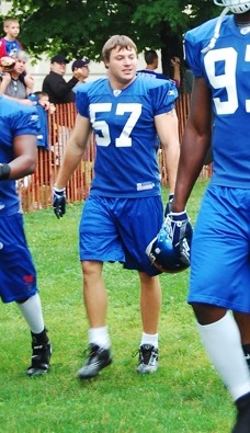 New York Giants linebacker Chase Blackburn at 2007 training camp